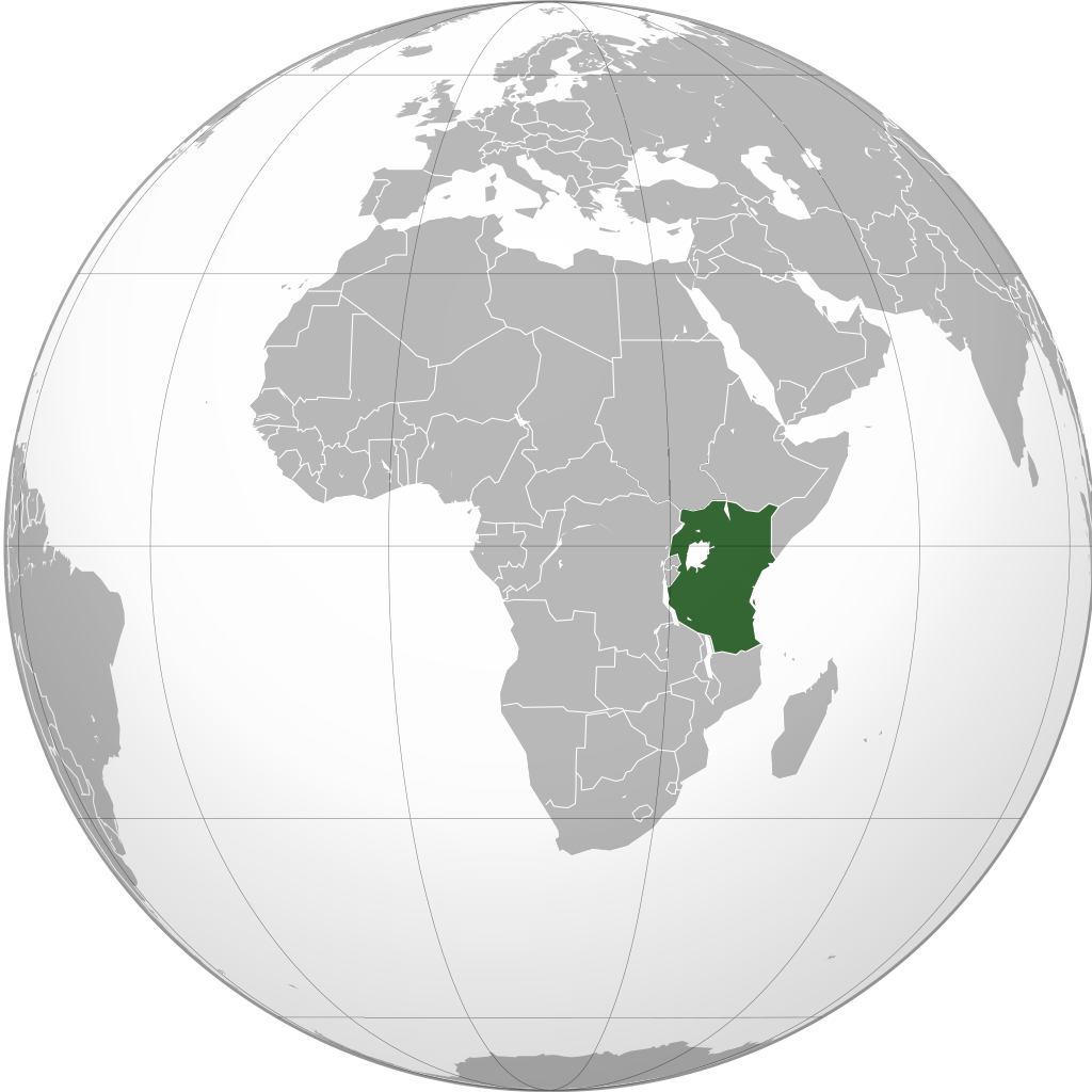 Location of the proposed East African Federation without internal borders in 1963 based on East African Federation (orthographic projection).svg by Martin23230 and Union of African States (orthographic projection).svg by NuclearVacuum